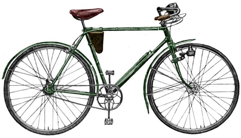 UkSSR bicycle kHVZ «Tourist» V-31, (1949 year)